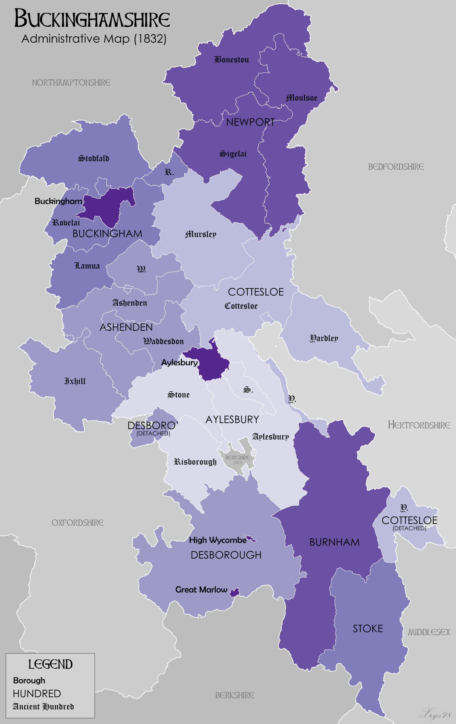 Administrative map of the county of Buckinghamshire in 1832. Showing Hundreds, extant Boroughs. Hundred boundaries from University of Nottingham English Place Name Society. Source data for parish boundaries - Kain, R.J.P., and Oliver, R.R. (2001) "Historic parishes of England and Wales". Unit names from Vision of Britain website.